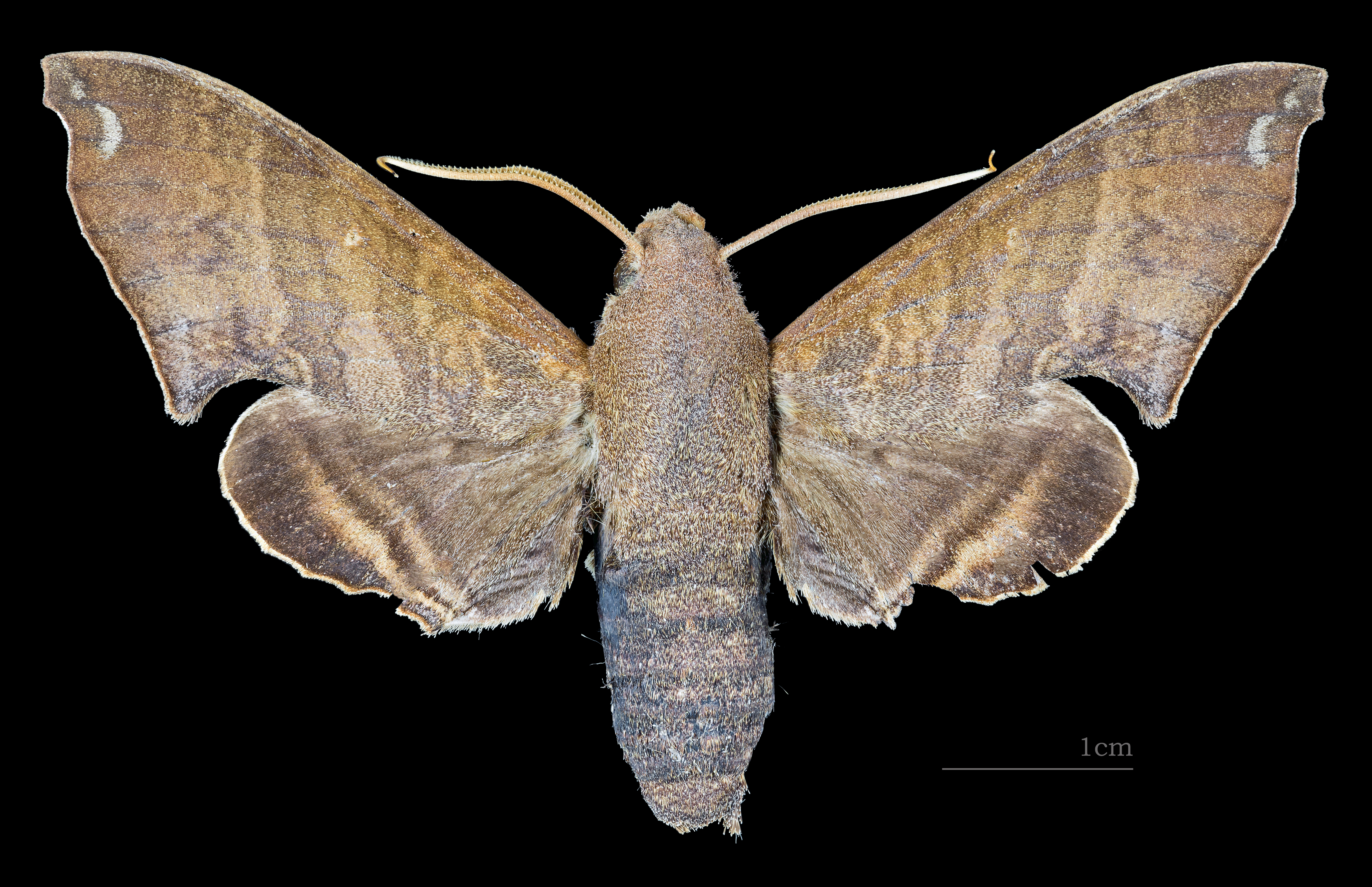 Pachygonidia subhamata - Dorsal side